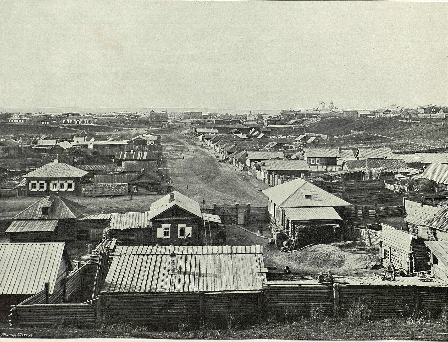 «Great Path - Views of Siberia and Great Siberian Railway» book, 1899